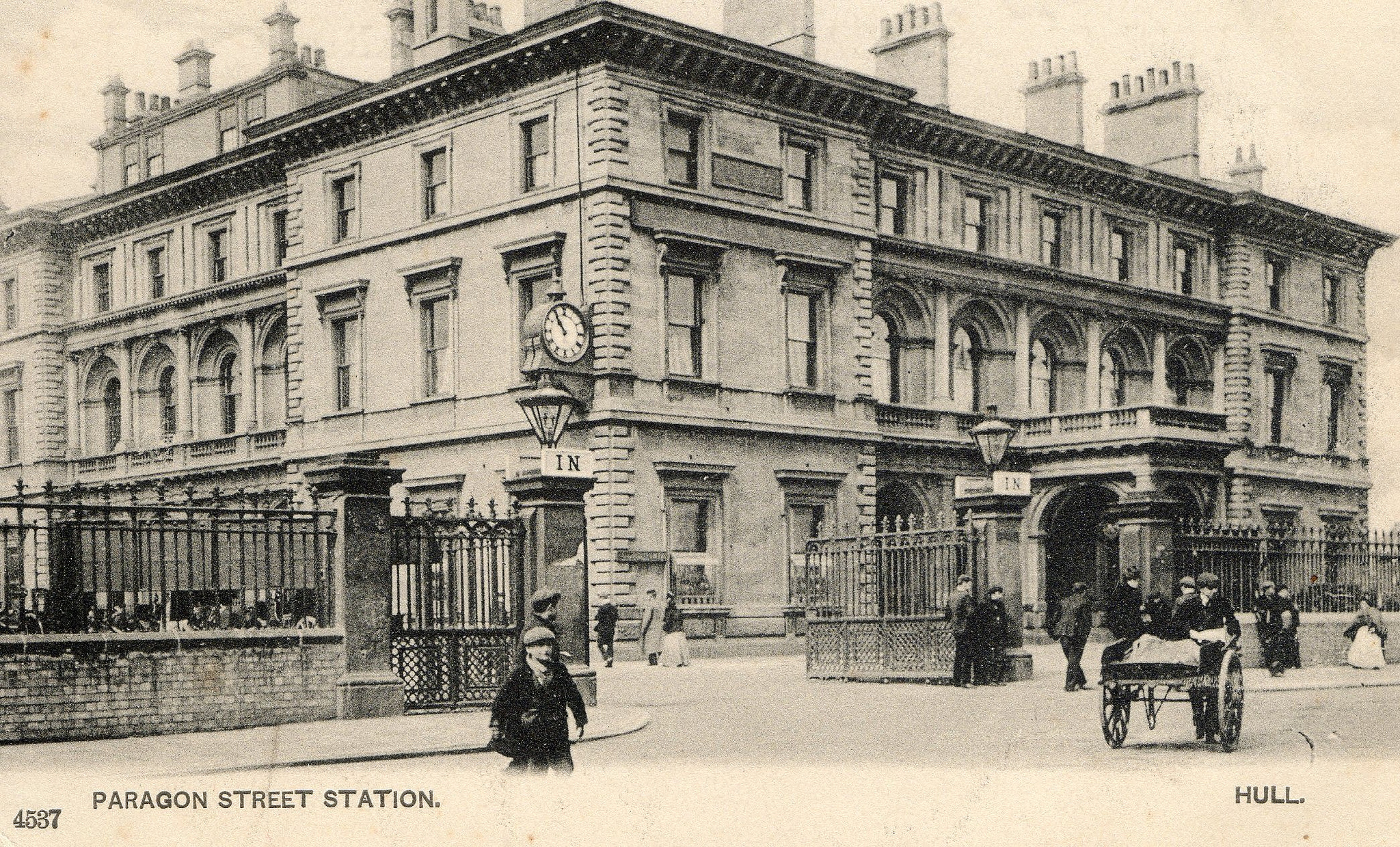 Post card of Paragon station hotel "Royal Hotel" around early 1900s or earlier. Image shows Hotel before expansion (wings) and with original portico